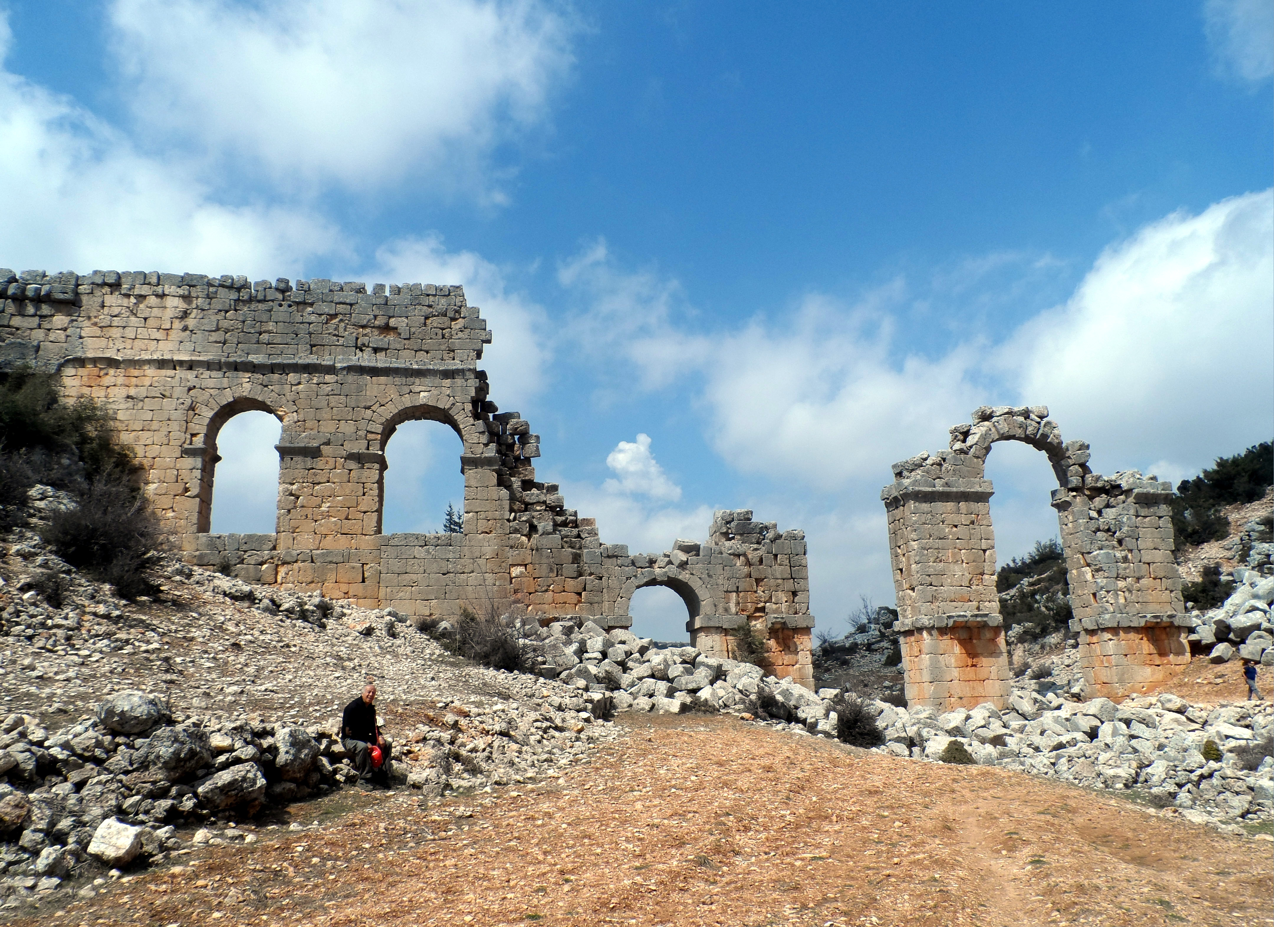 Ruins of Olba Aqueduct in Silifke district of Mersin Province, Turkey